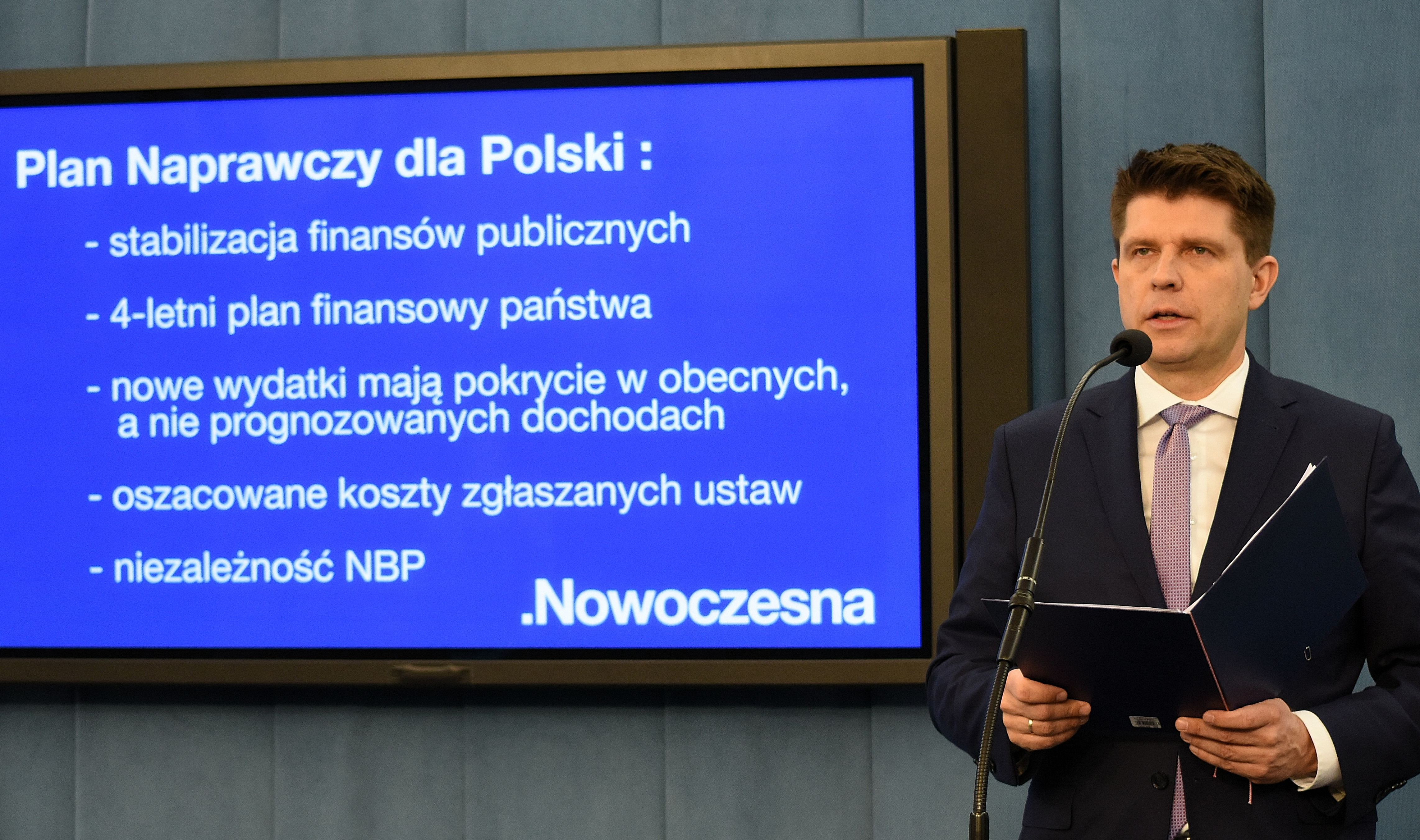 Polish MP Ryszard Petru in the Sejm